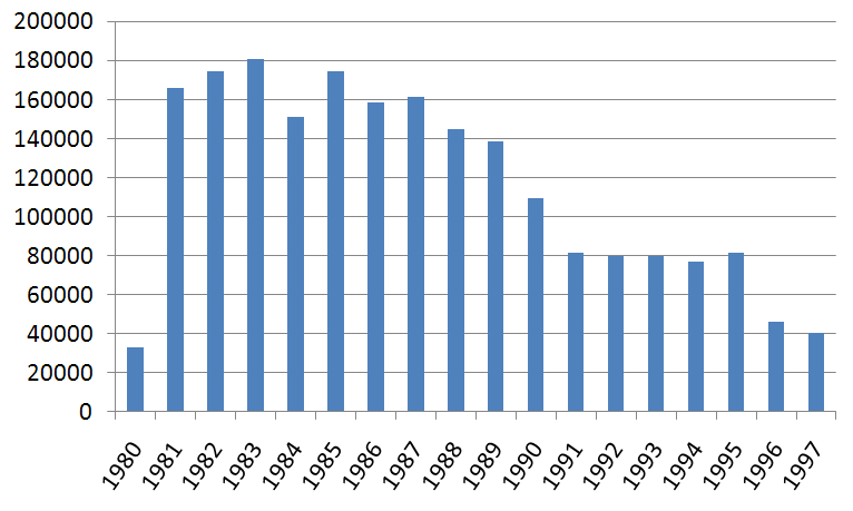 Chart showing Austin/MG Metro, Rover Metro and Rover 100 production from 1980 to 1997